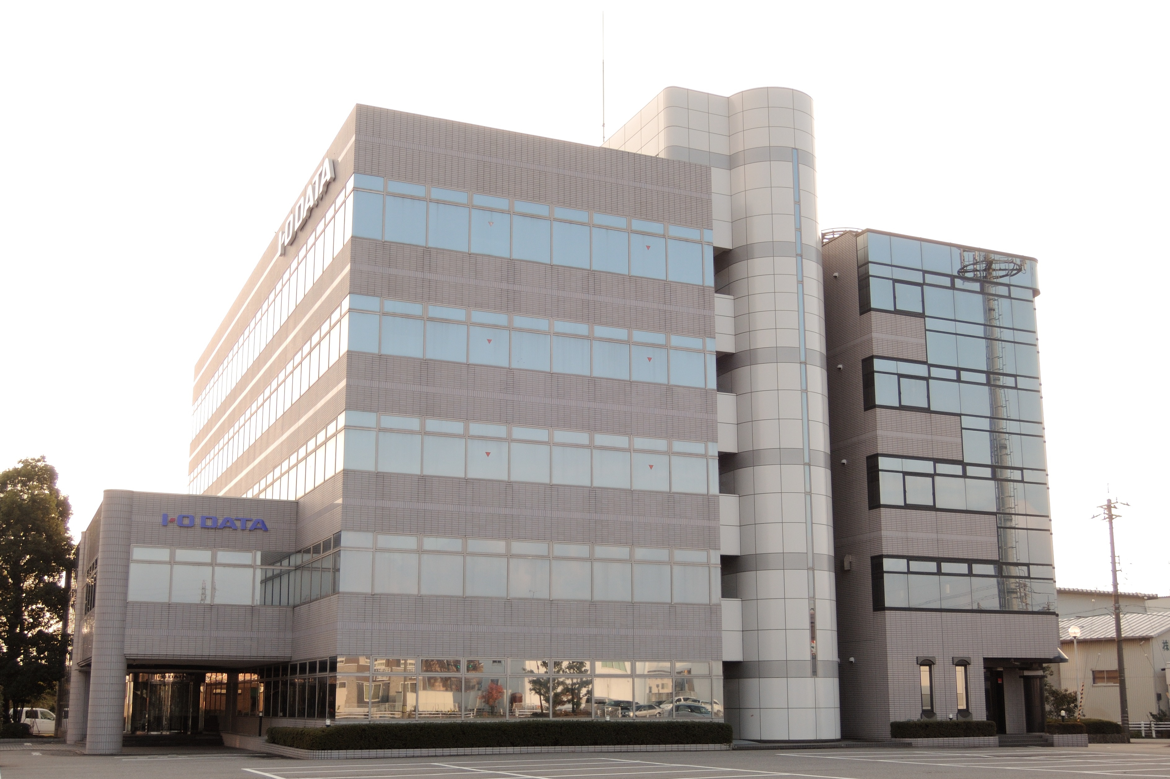 Headquarters of I-O DATA DEVICE, INC.,Ishikawa prefecture,Japan